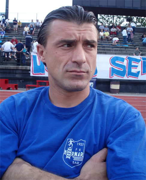 Dragan Radović looks on prior to a Canadian Soccer League match.